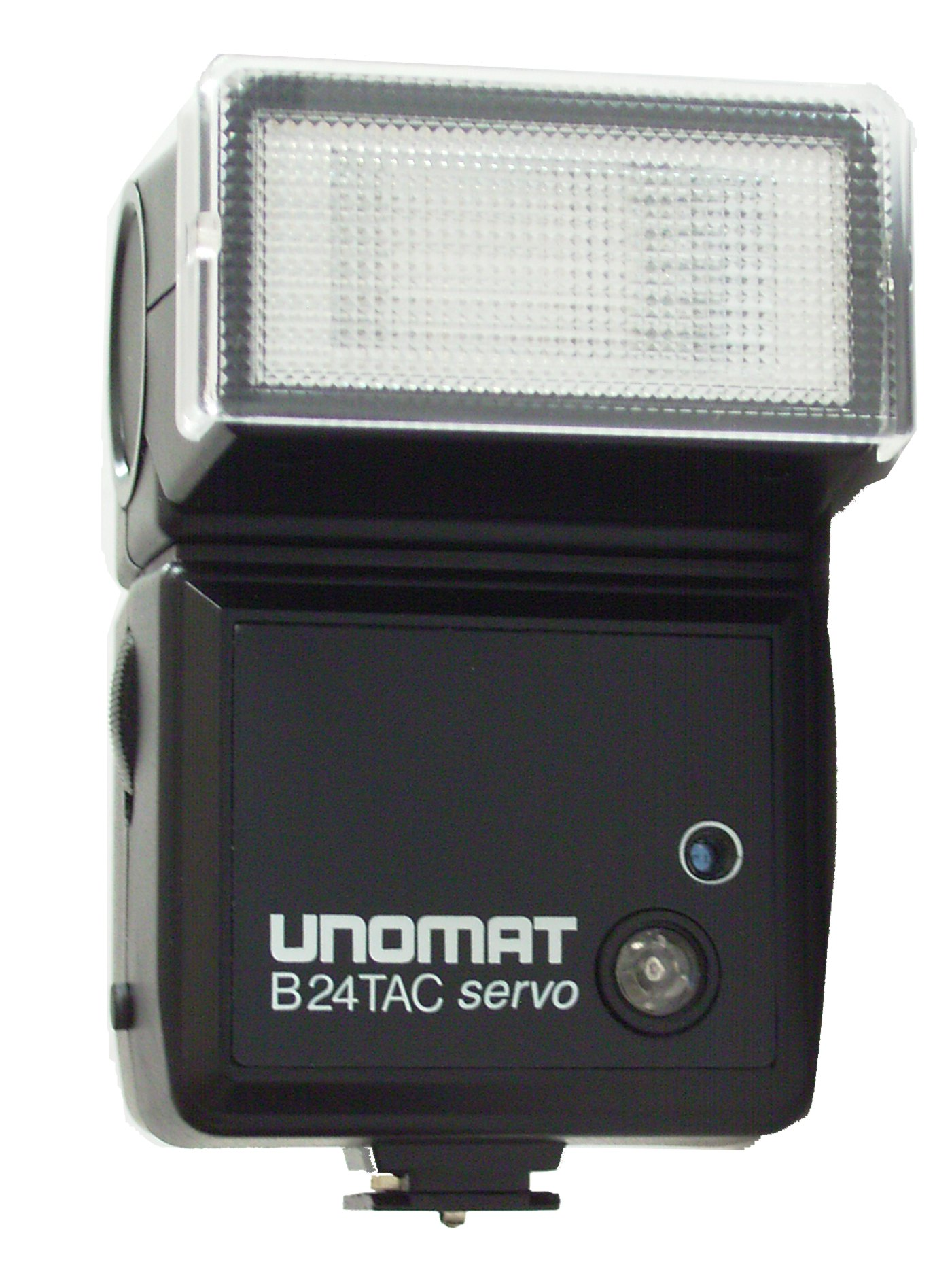 A Flash Equipment for better Light in Images